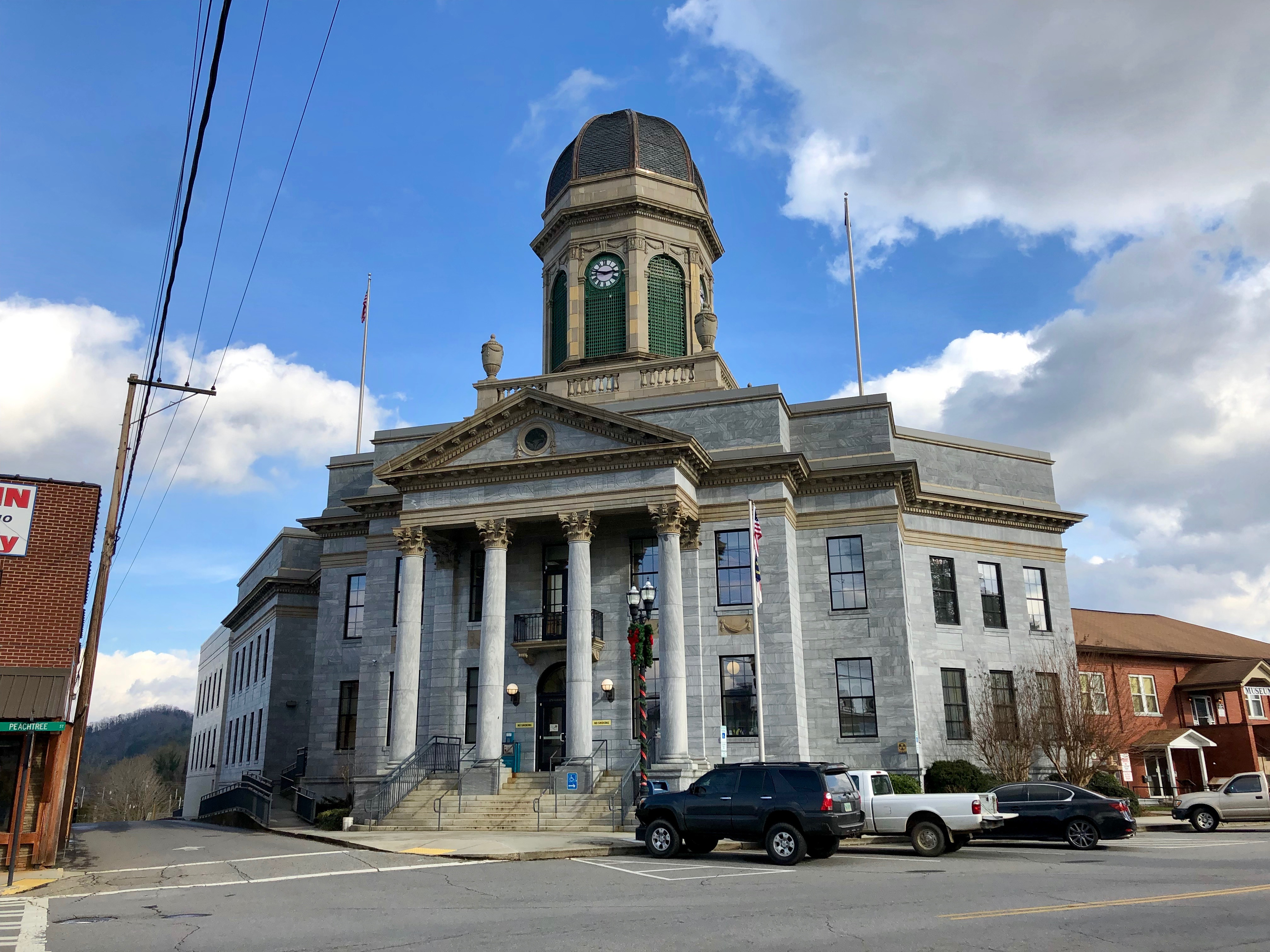 Cherokee County Courthouse, Murphy, NC